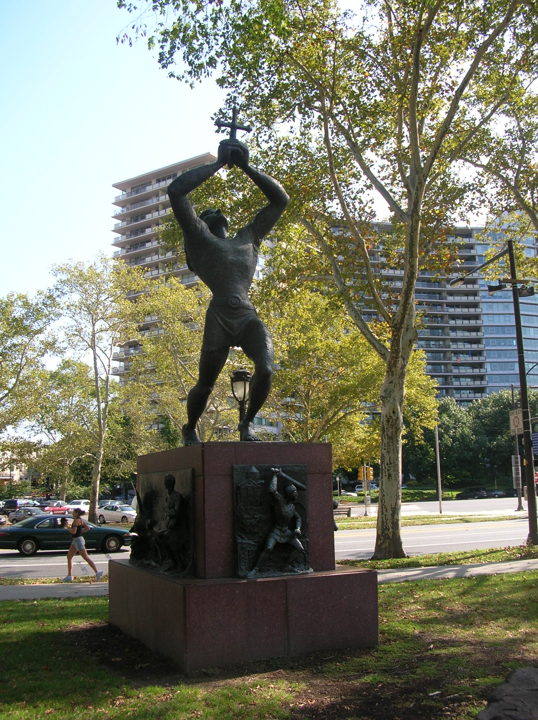 Memorial to the Armenian Genocide in Philadelpha.